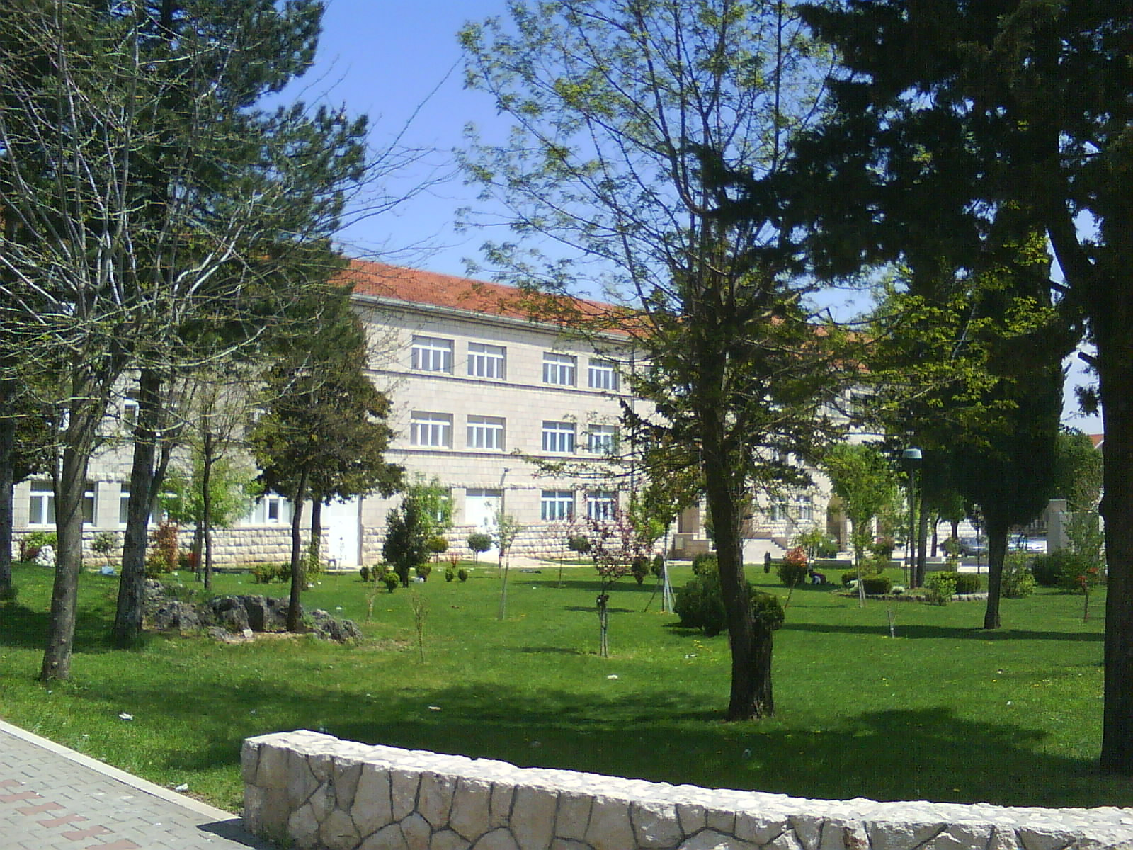 park in city of Posušje